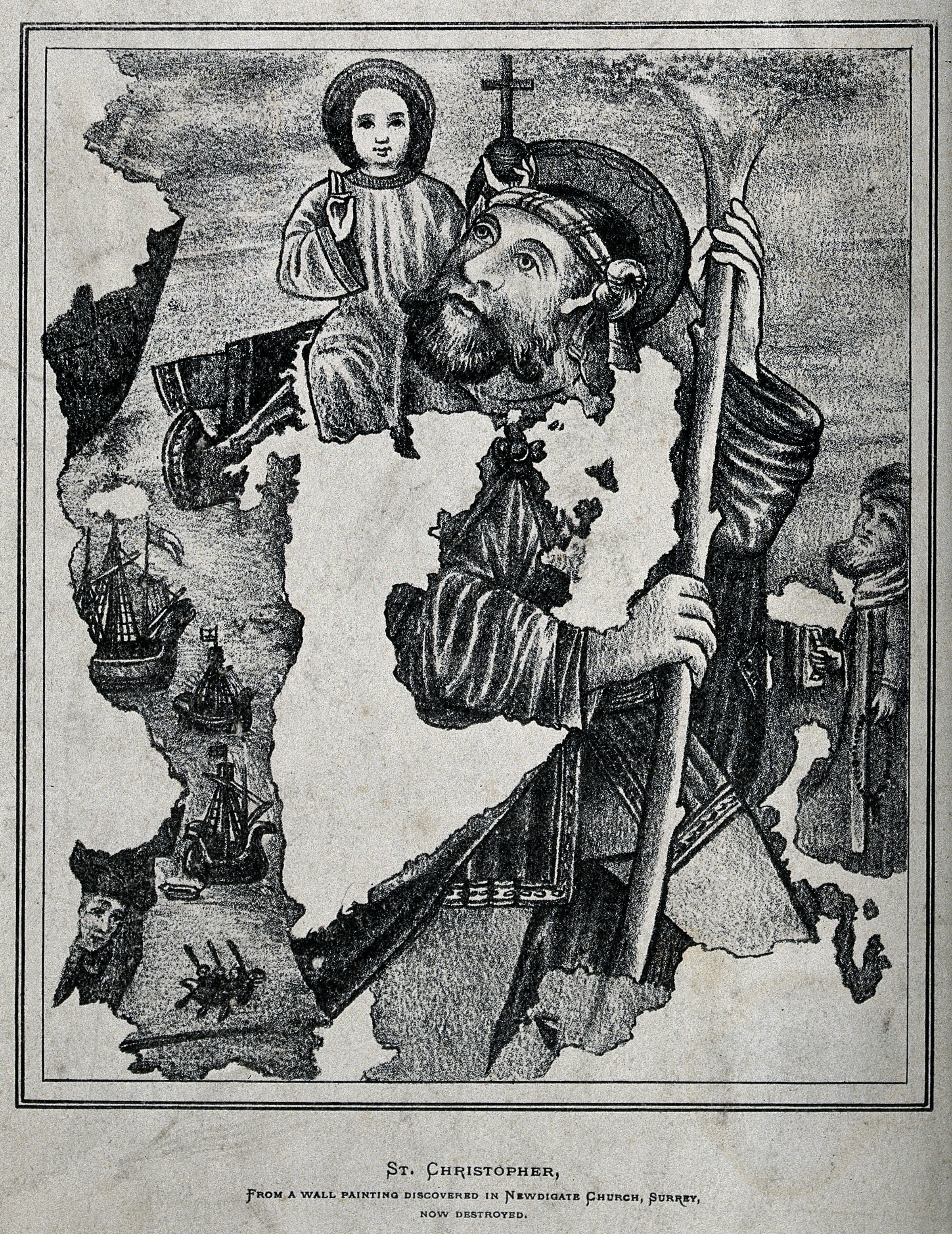 Saint Christopher. Reproduction of lithograph. Iconographic Collections